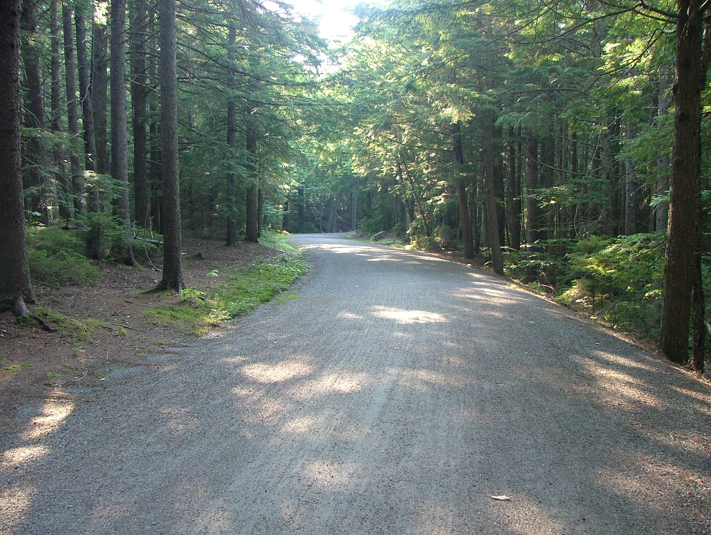 Carriage Road in Acadia National Park, Maine